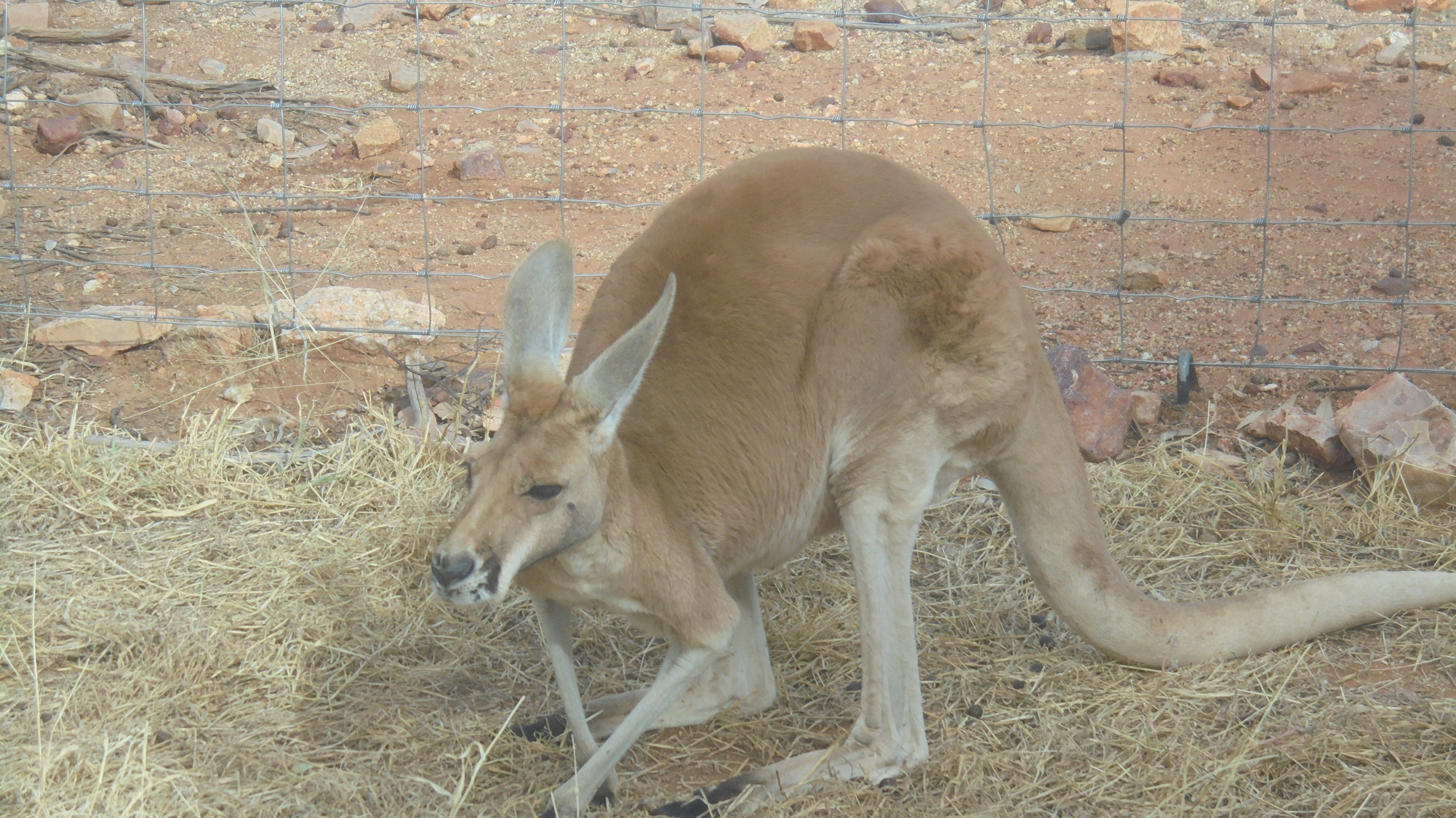 A kangaroo at Alice Springs Desrt Park